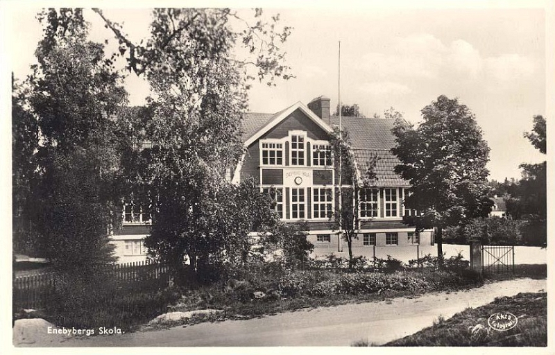 Enebyberg's school early 20th century